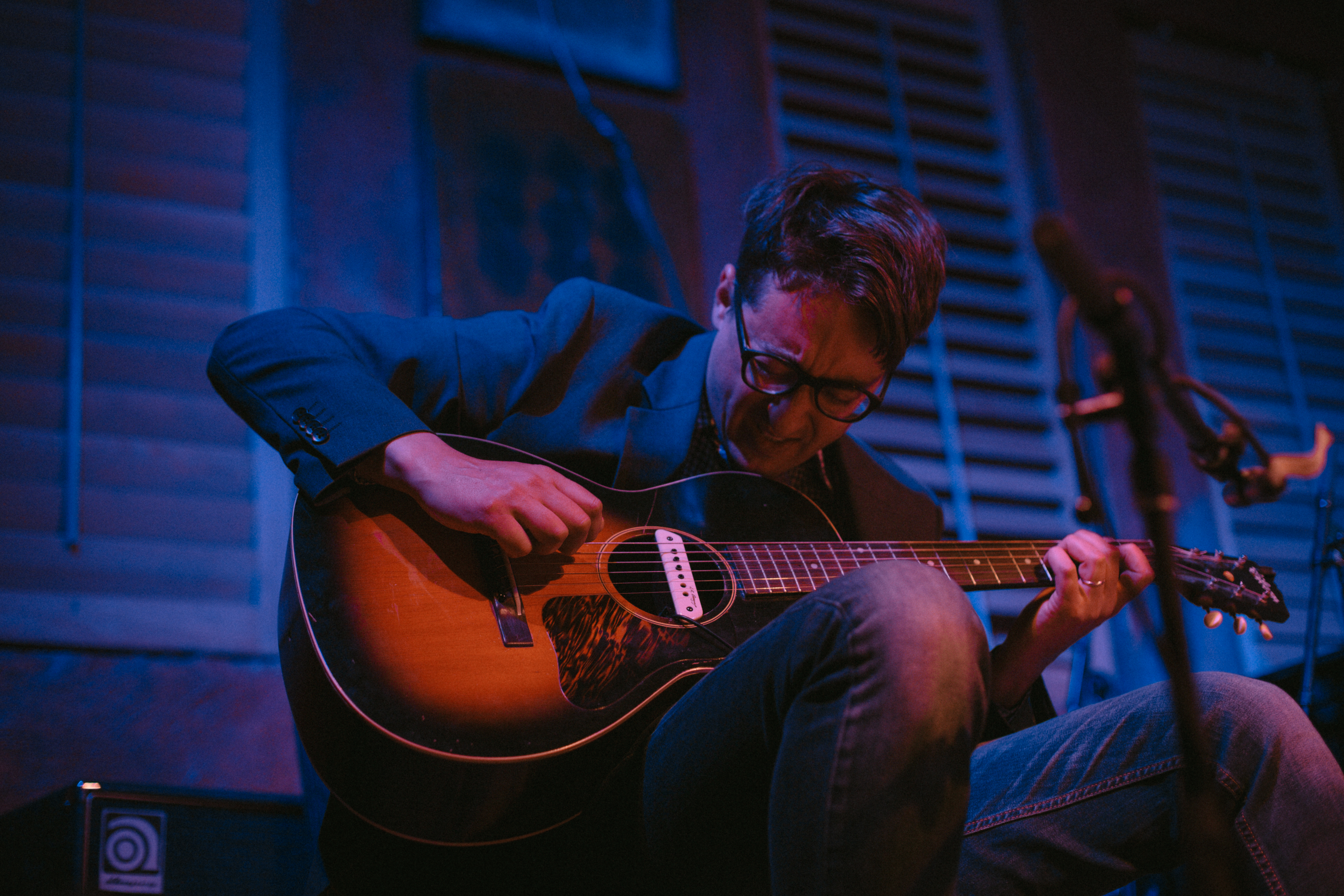 Guitarist Aram Bajakian performing at the Vancouver Jazz Festival in 2017